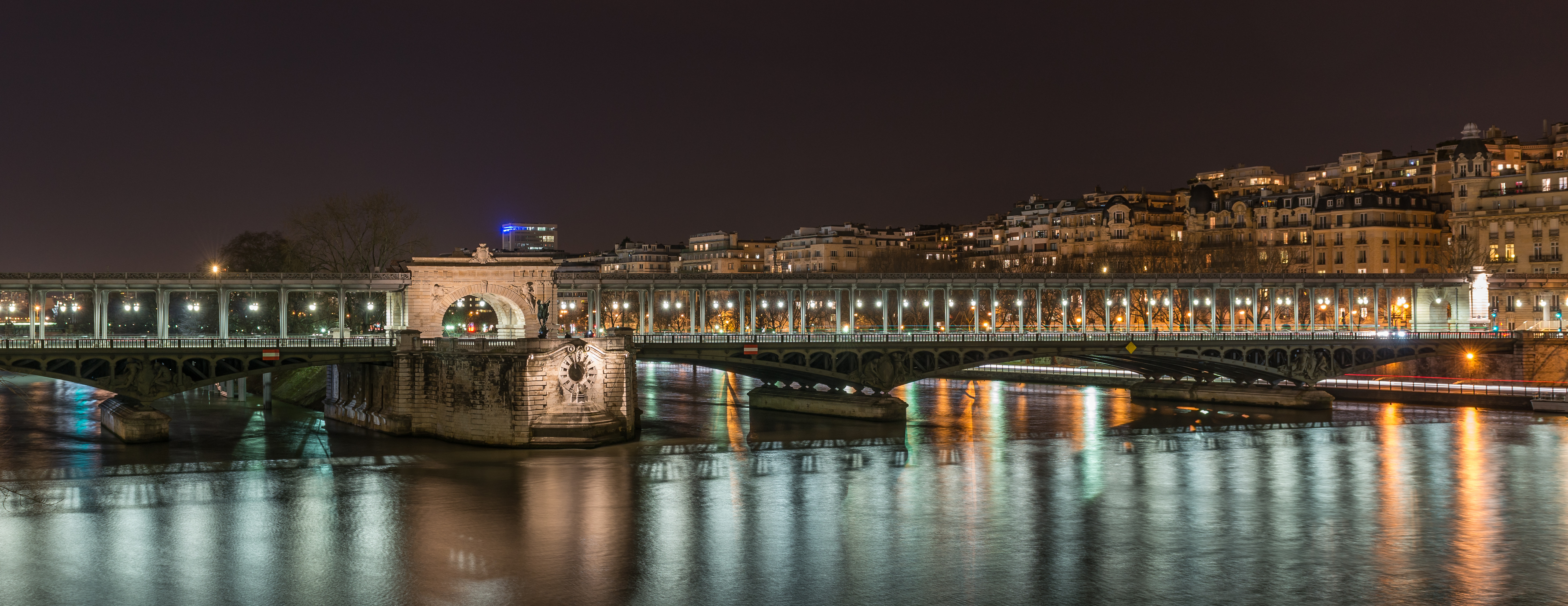 The Pont de Bir-Hakeim bridge seen at night from the Promenade d'Australie